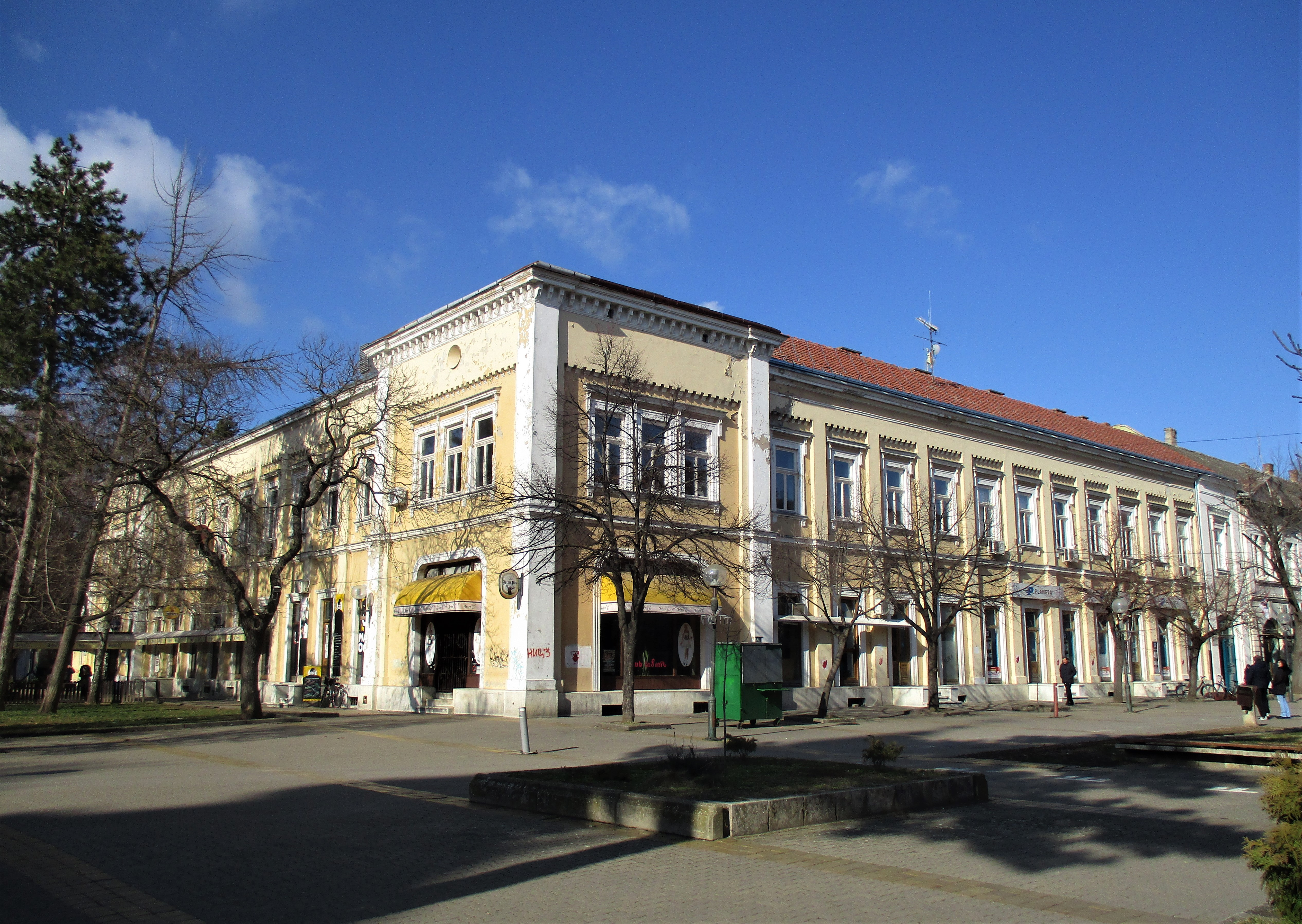 Cultural centre Kikinda